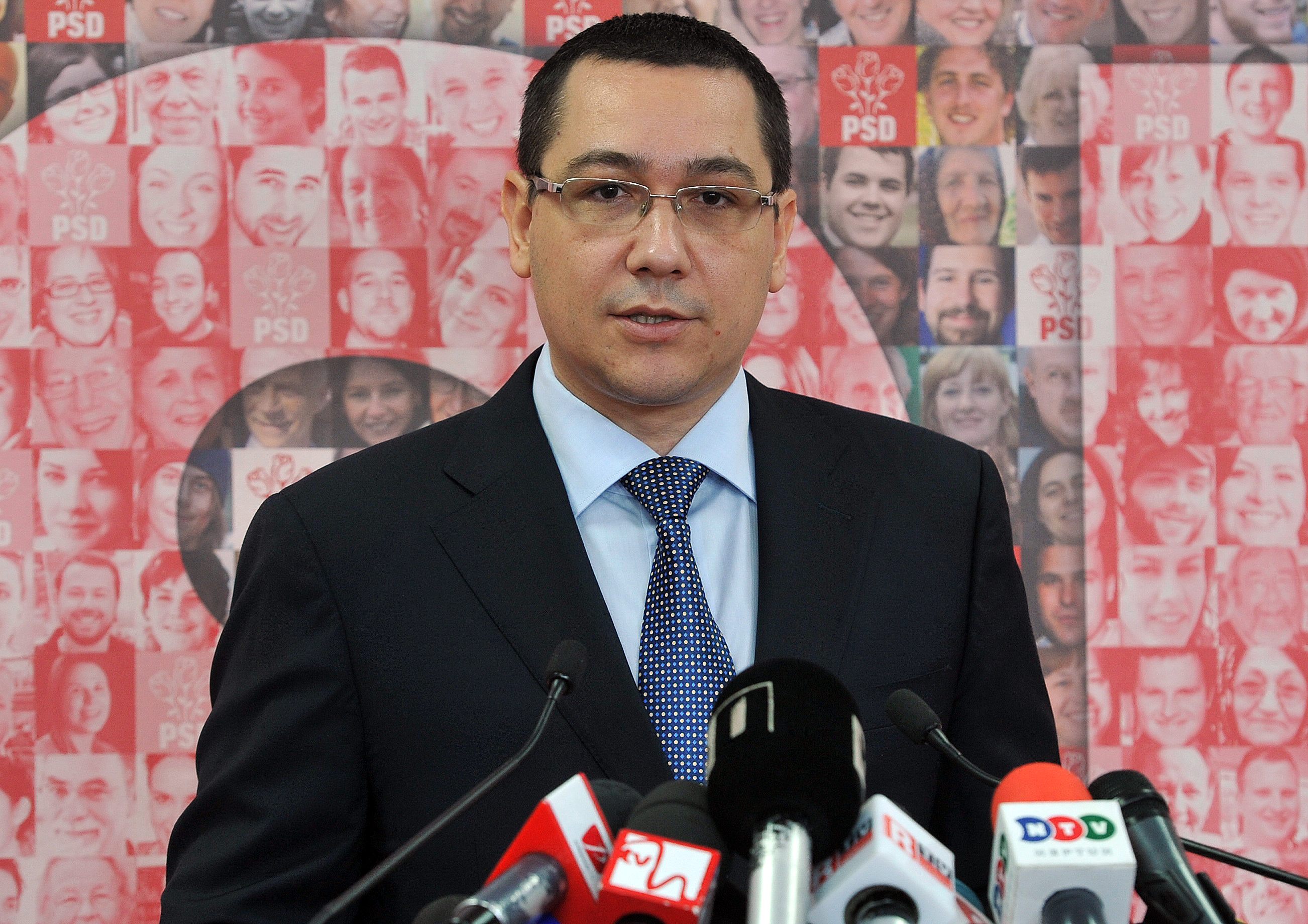 Victor Ponta la reuniunea BPN al PSD